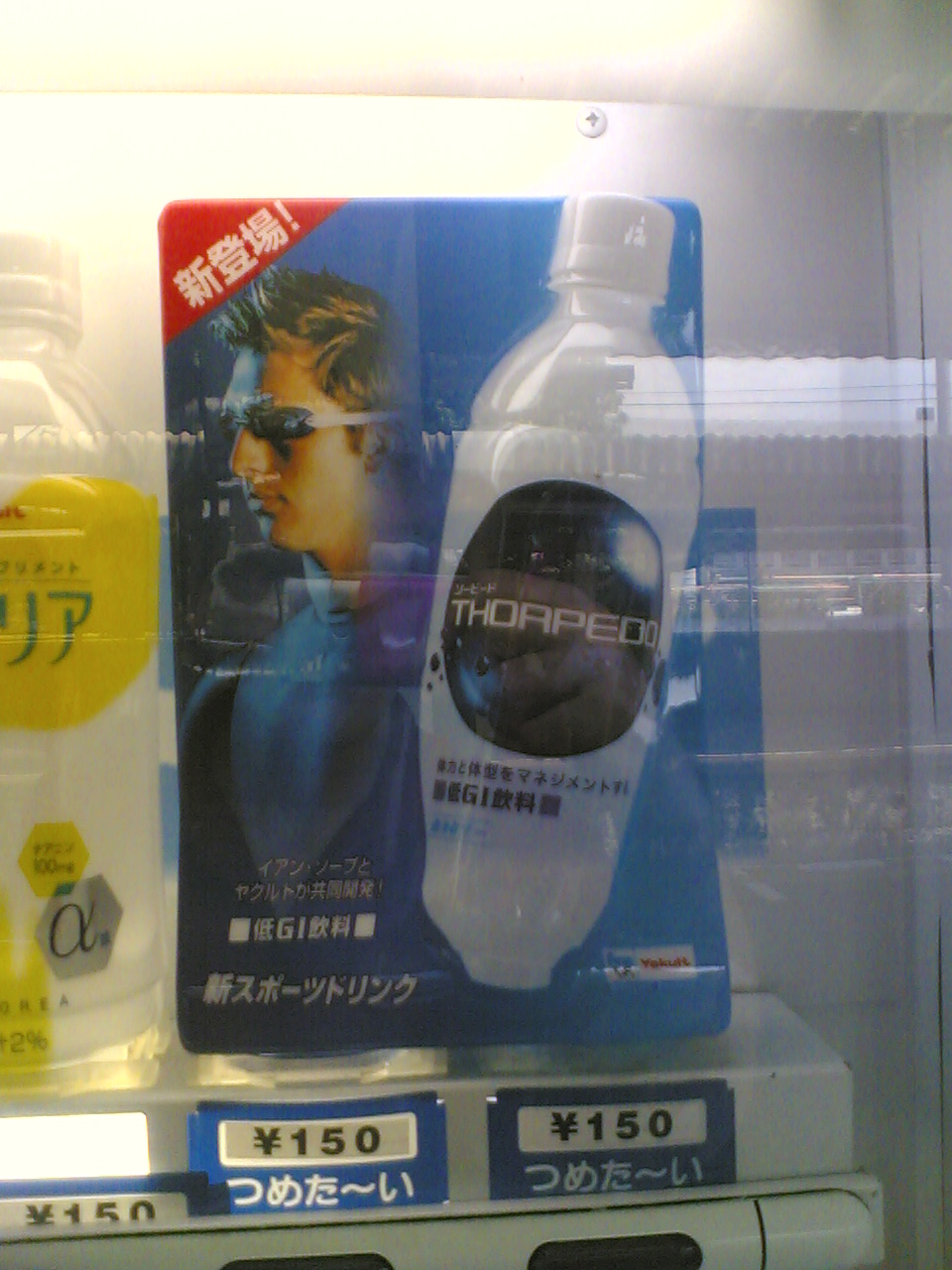 Ian Thorpe Thorpedo - The Drink - thorpedo ith tho thilly.